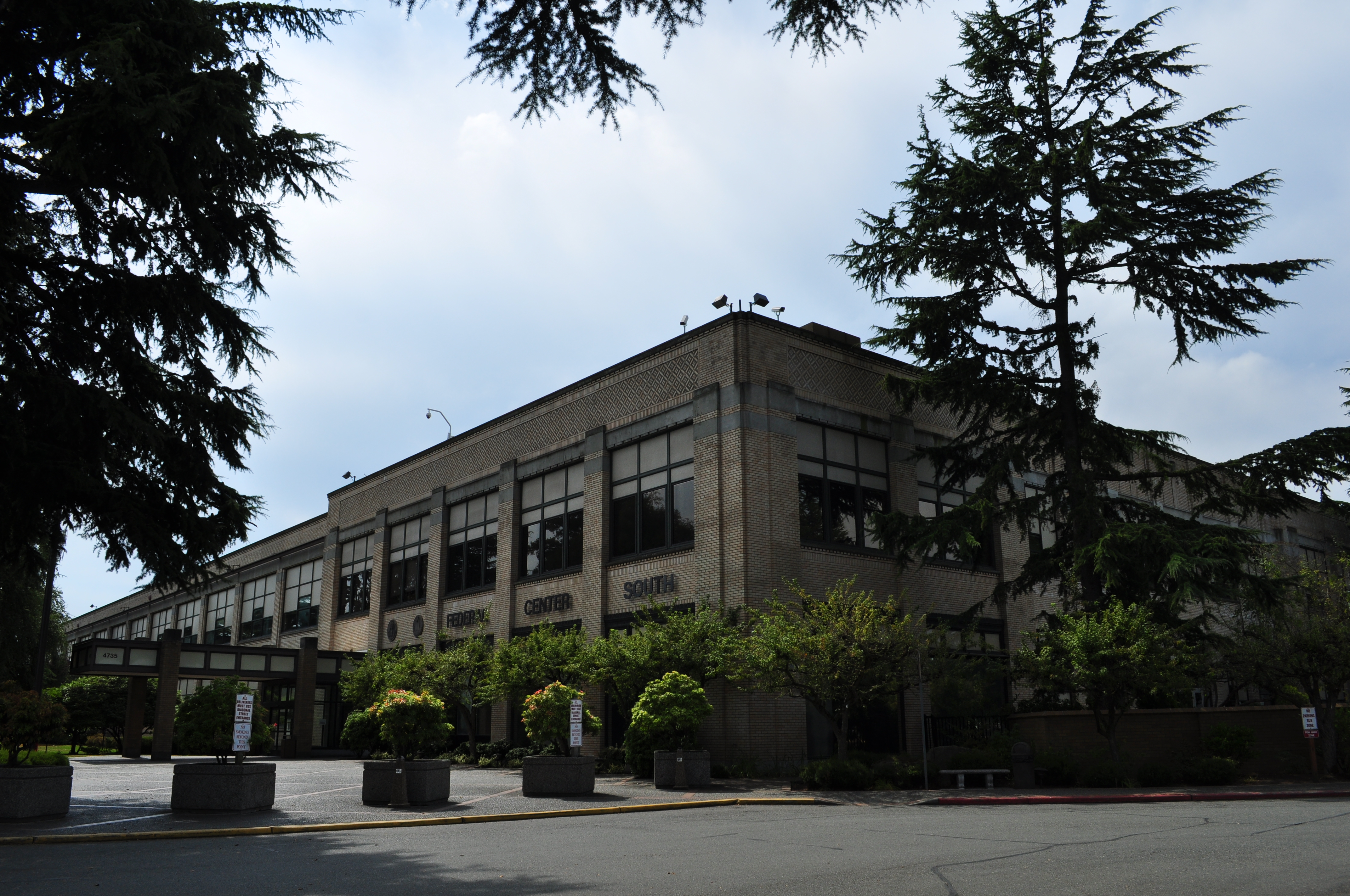 Federal Center South, 4375 East Marginal Way S, Seattle, Washington, USA. Originally a Ford Assembly plant; several uses over the years including as Boeing's Missile Production Center. for more history.